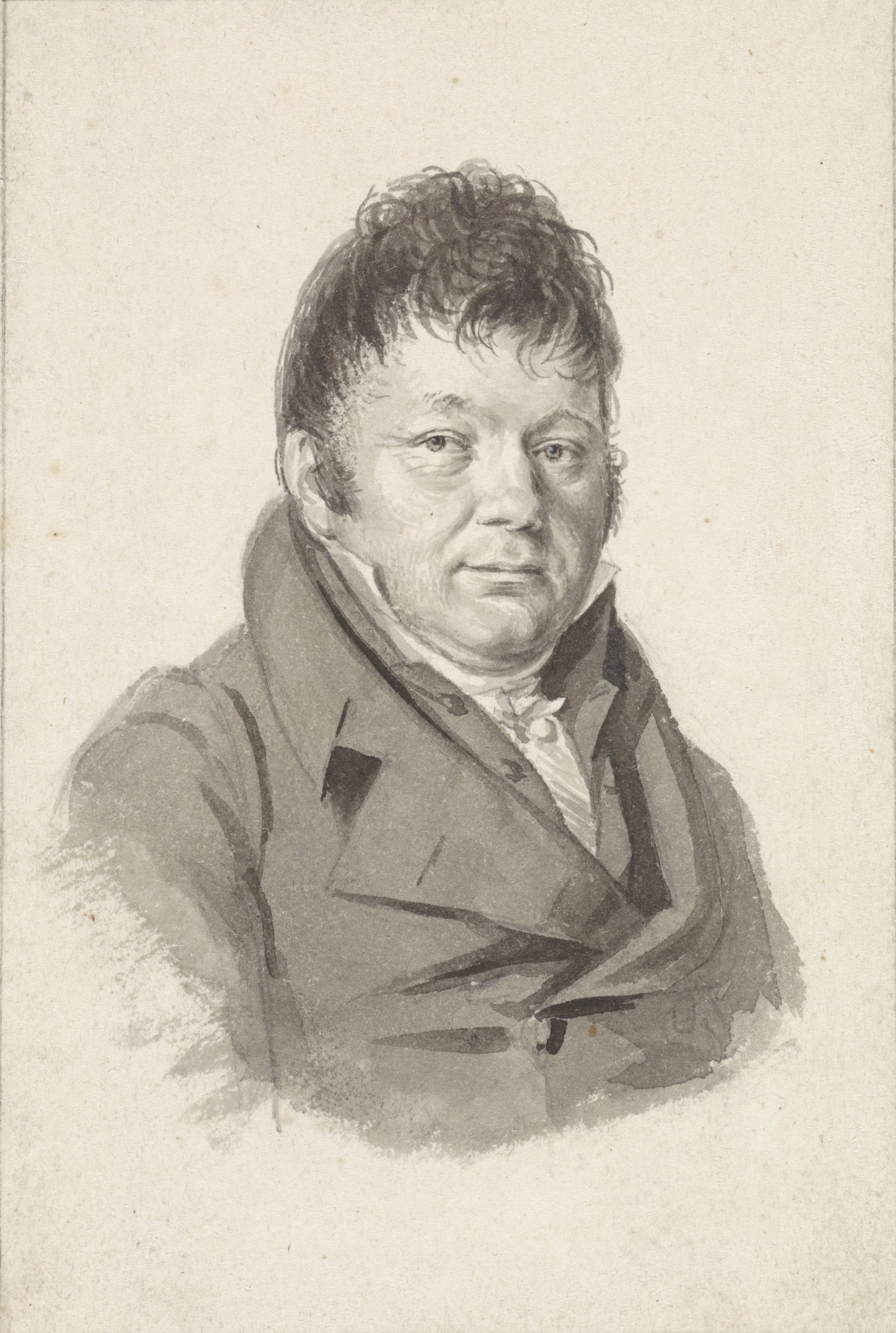 Depicted person: Antoine Fodor